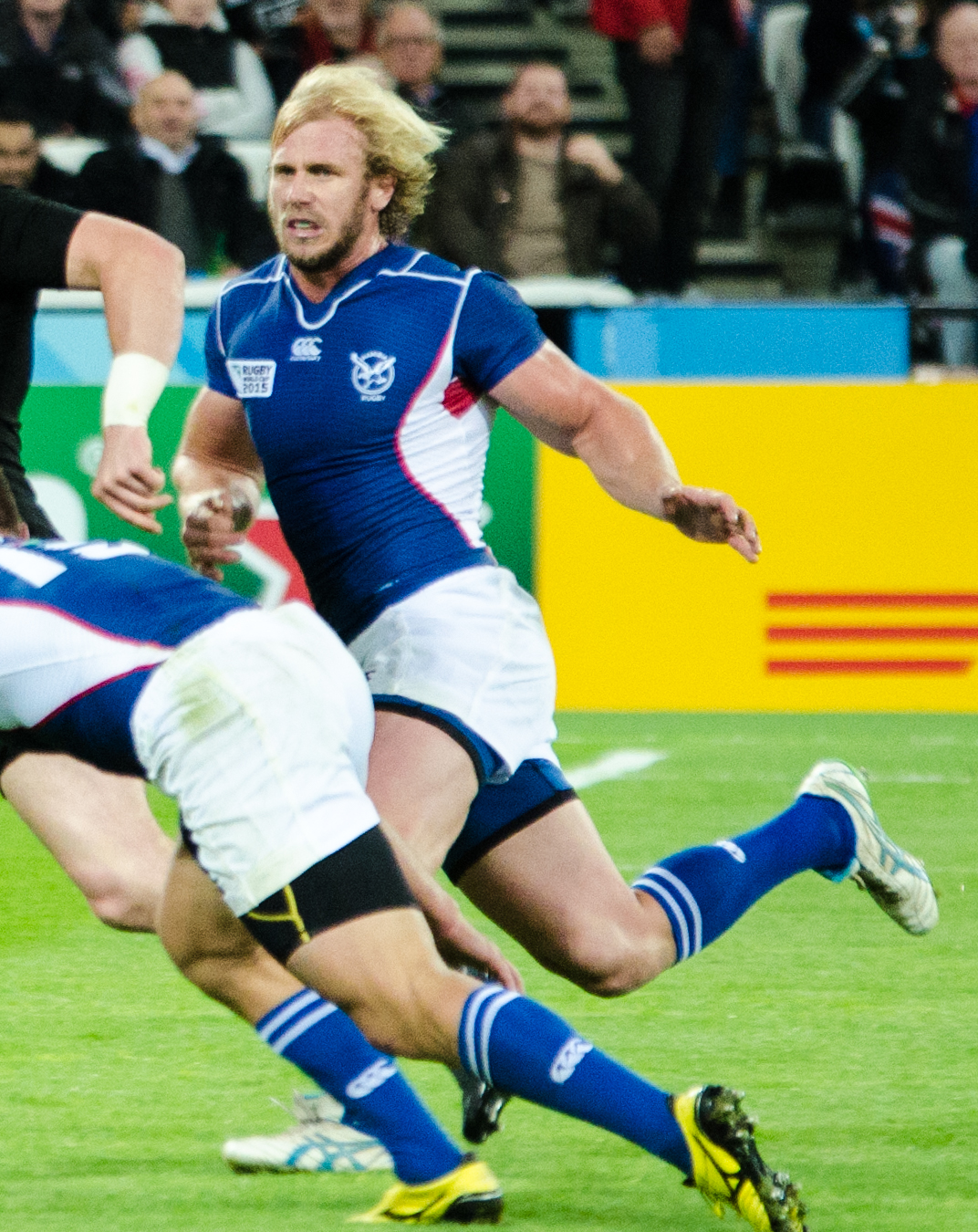 New Zealand international rugby union player Beauden Barrett outpacing Namibia’s Johan Tromp and Conrad Marais during the match between their sides in the 2015 Rugby World Cup at Olympic Stadium in London